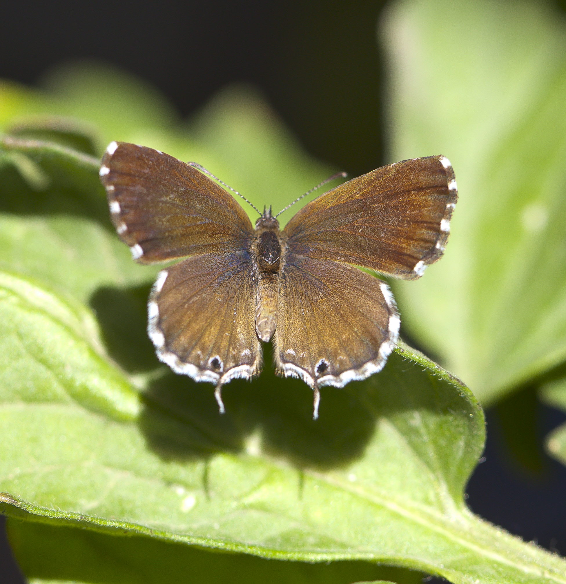 Geranium Bronze (Cacyreus marshalli), Calatayud, Spain